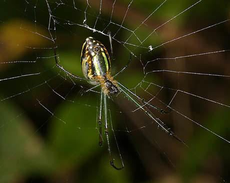 female Leucauge blanda from Okinawa.